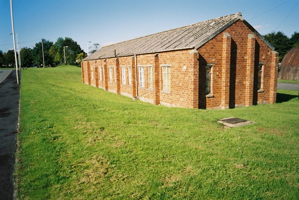 WW2 army hut at Stainton Grove This building is in use as an industrial unit. It dates from the 1940s and is typical of many at the former Stainton Camp.